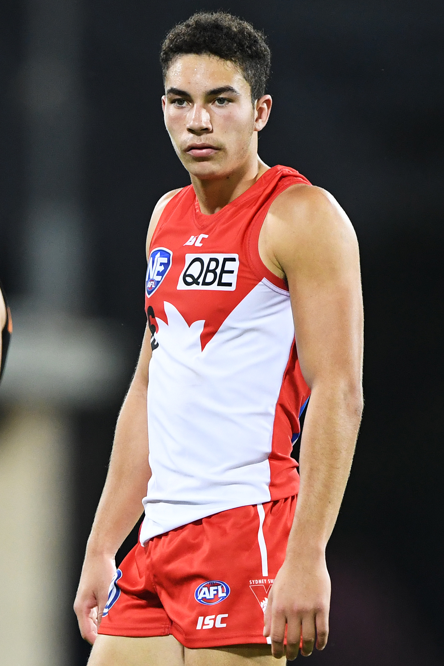 Zac Foot of Sydney during the 2019 NEAFL round 14 match between NT Thunder and Sydney at TIO Stadium on Saturday, 6 July 2019 in Darwin, Northern Territory.